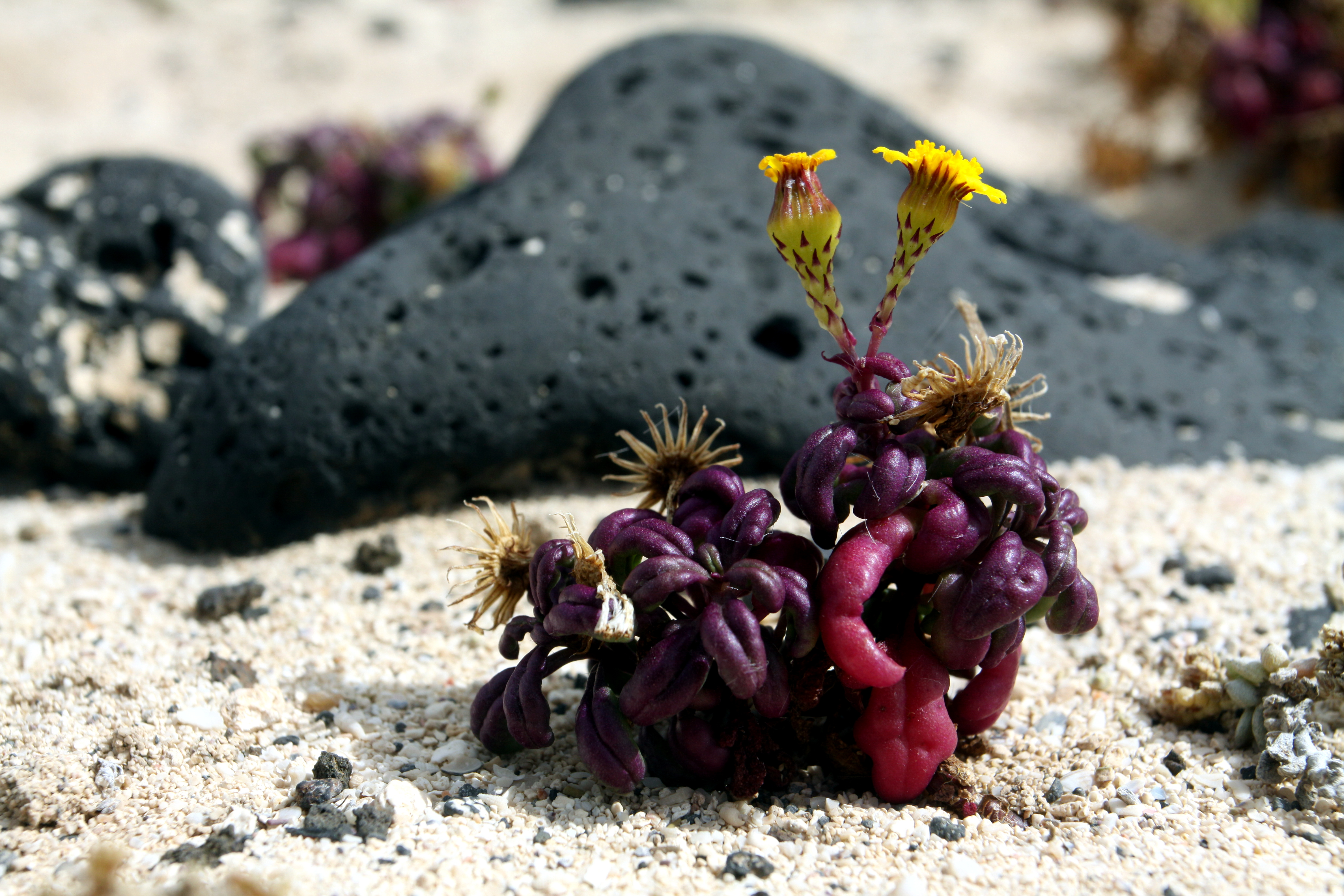 Senecio leucanthemifolius on the beach close to Órzola on Lanzarote, The Canary Islands, Spain Vị trí máy chụp hình29° 12′ 34,77″ B, 13° 26′ 02,57″ T Xem hình này và các hình ảnh lân cận trên: OpenStreetMap - Google Bản đồ - Google Trái đất